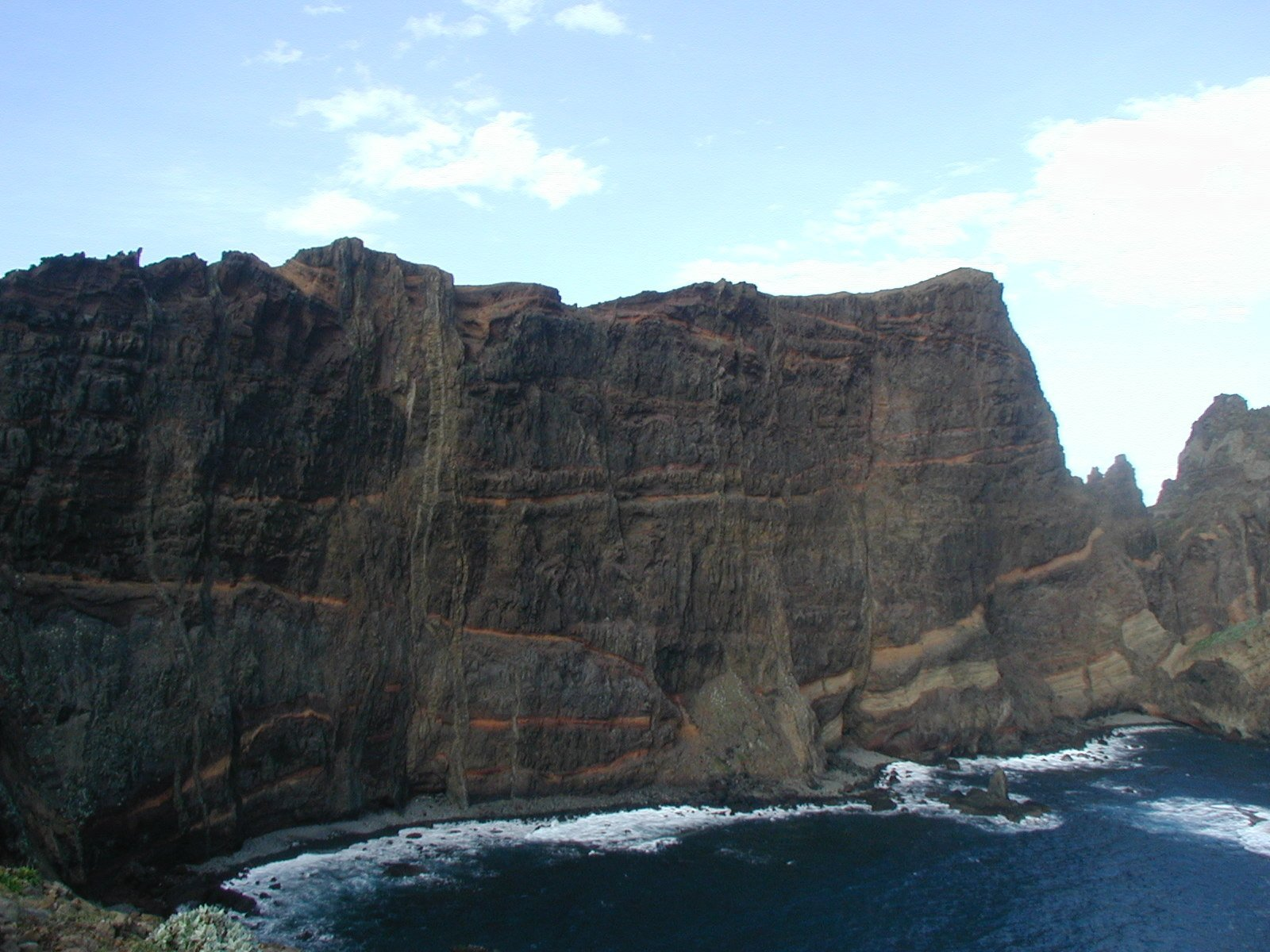 Lava flows intruded by dykes in the easternmost coast of Madeira.